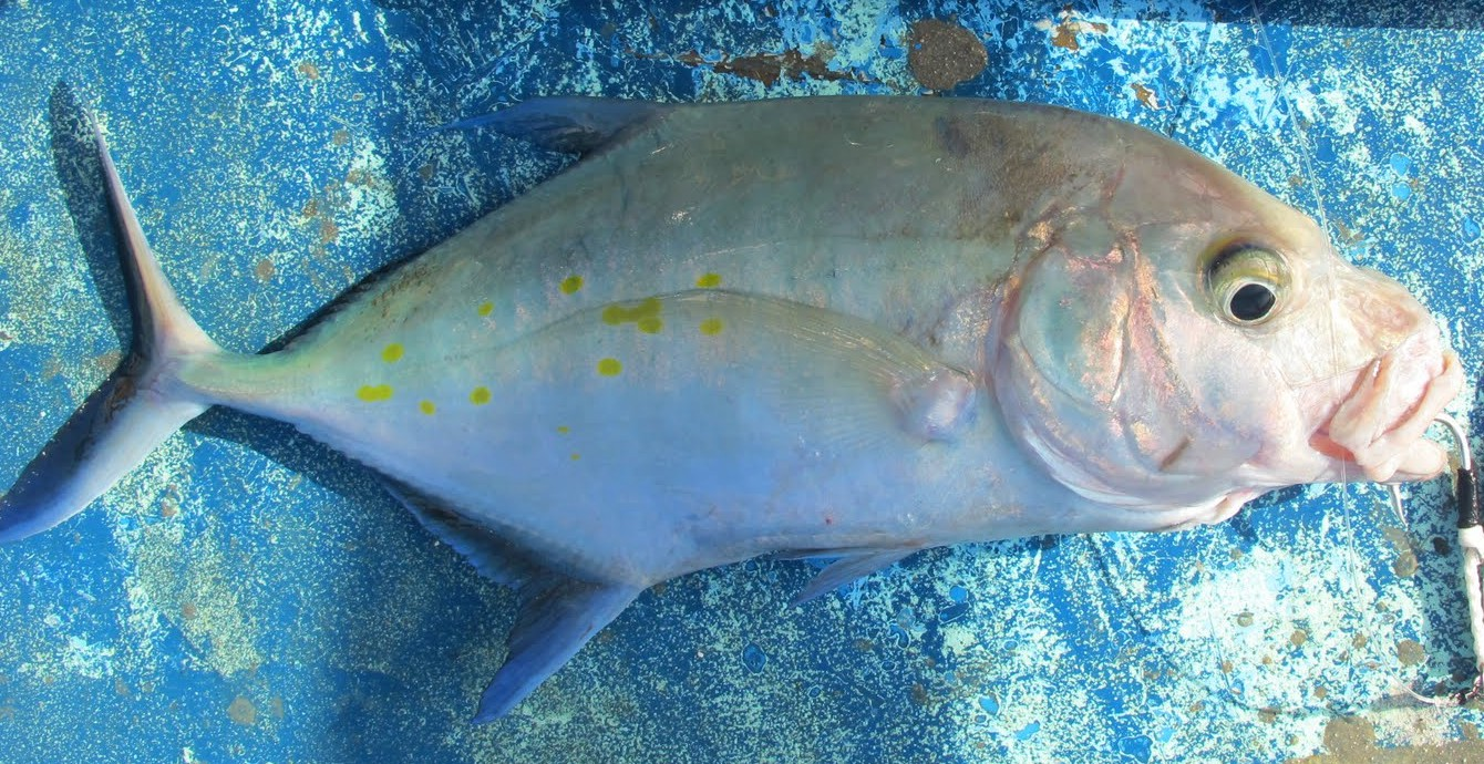 Thicklip trevally from Cape York